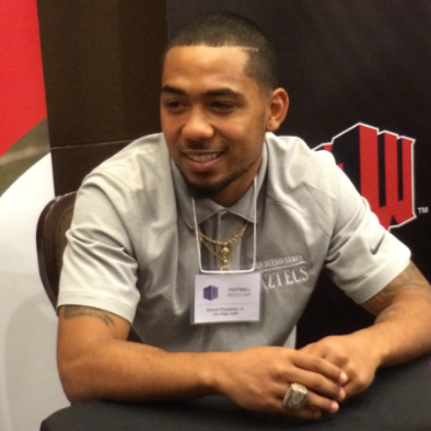 Donnel Pumphrey, running back for the San Diego State Aztecs football team, at the 2016 Mountain West Conference Media Days in the The Cosmopolitan in Las Vegas.